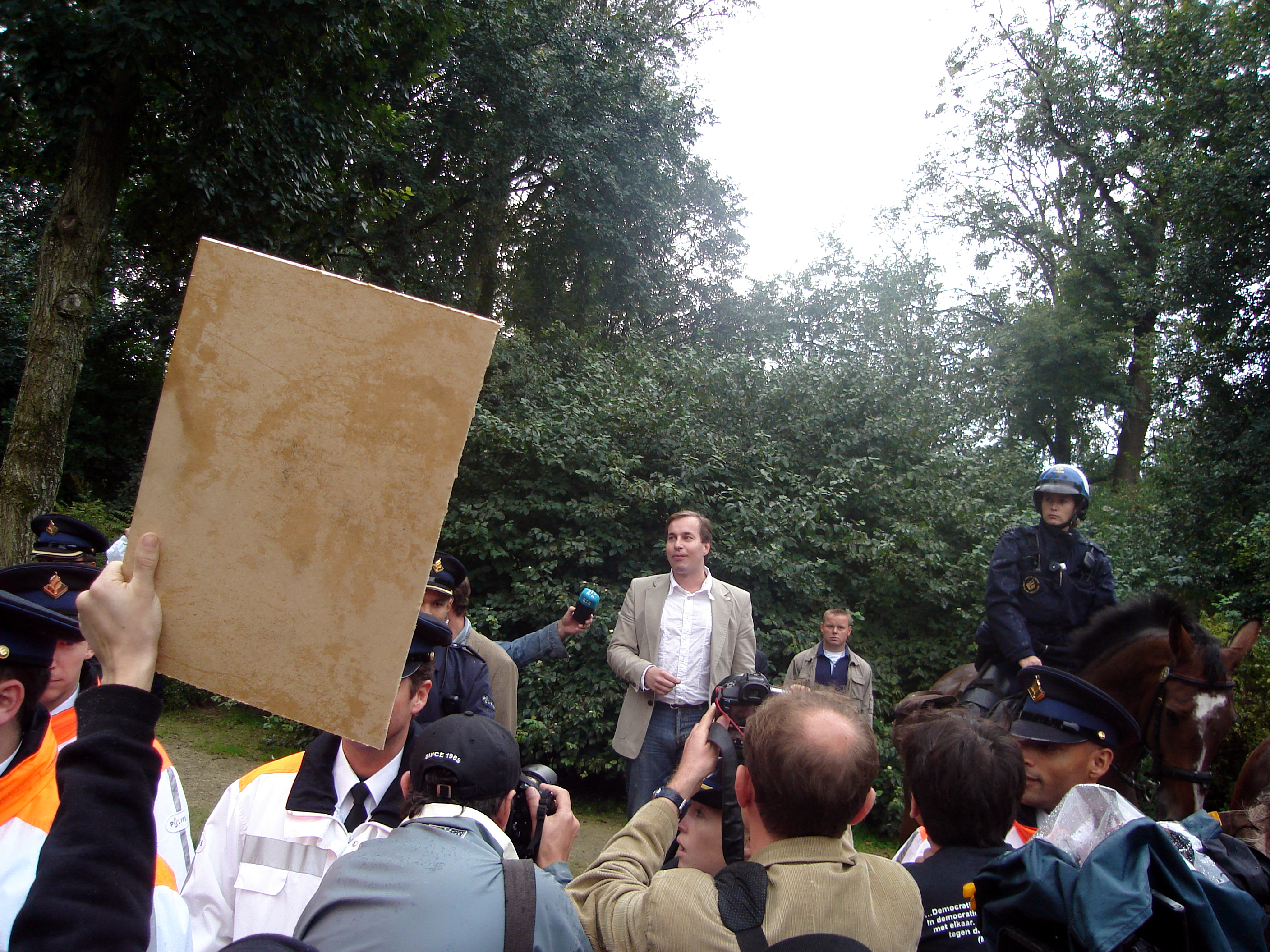 Dutch extreme right politician Michiel Smit (Nieuw Rechts) speaking, protected by police. Photograph taken by a protester.DSC01429